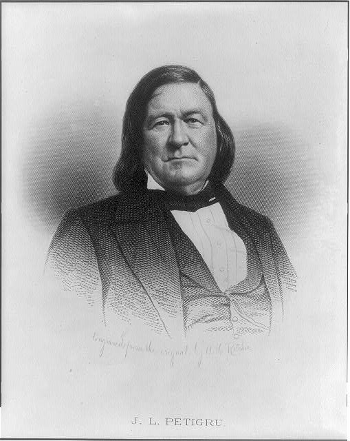 James Louis Petigru